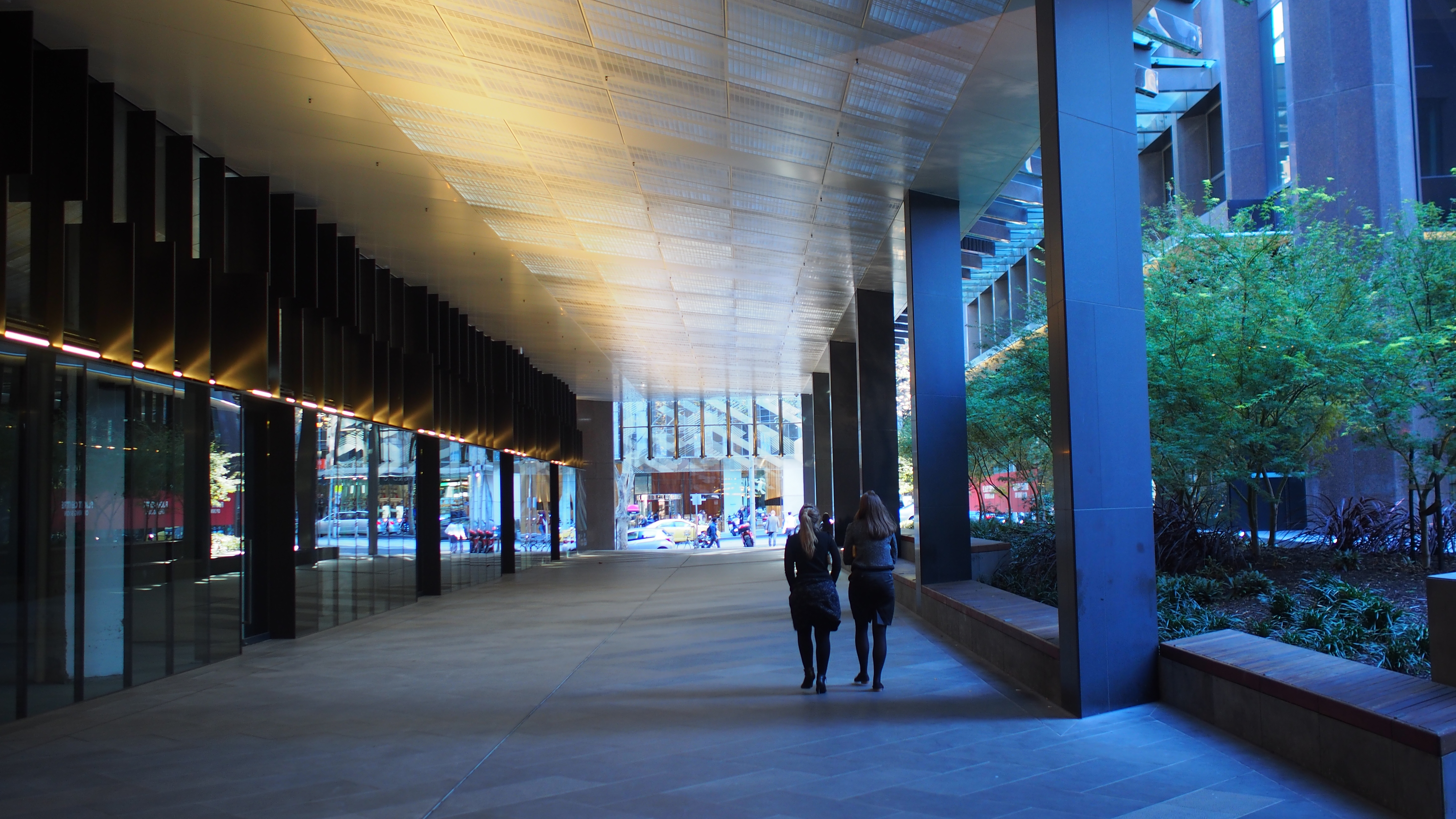 AMP Square Plaza 2015